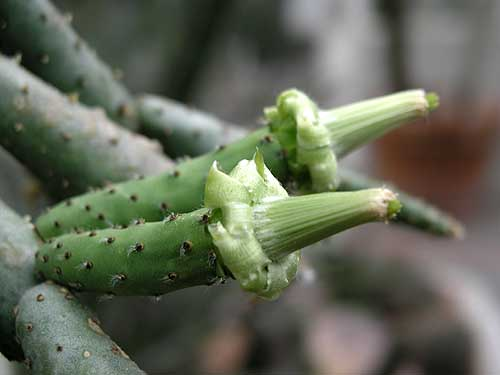 Tacinga funalis HU748. Juremal , Bahia , Brasil